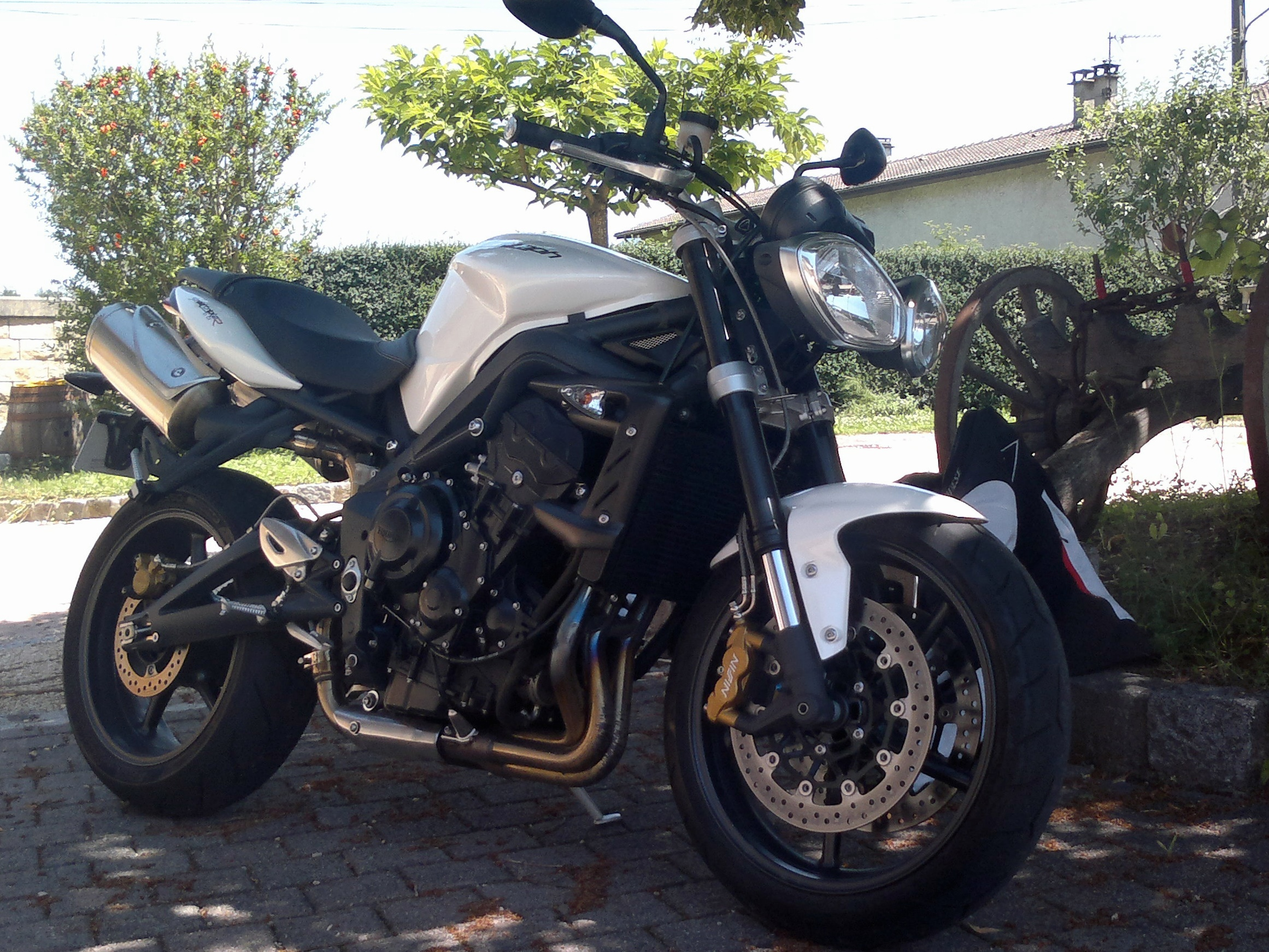 Triumph Street Triple R 675cc Crystal White